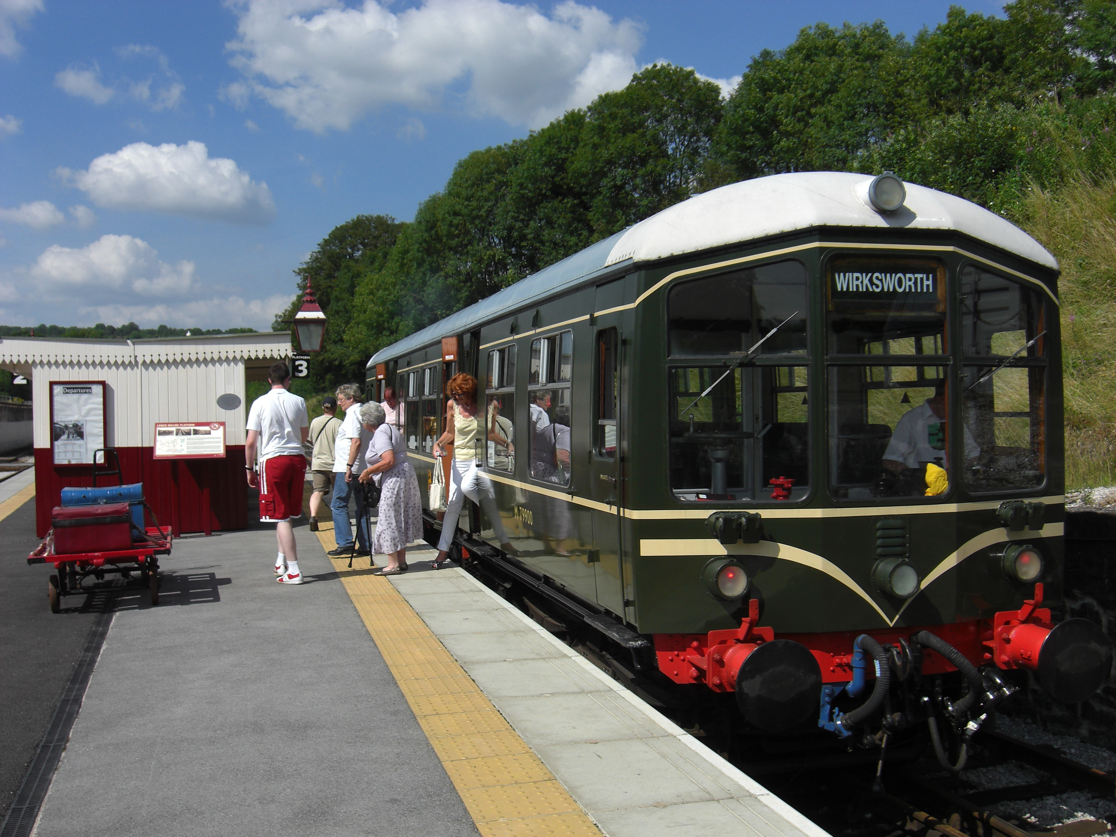 Derby Lightweight Single Car Unit M79900 resides on the Ecclesbourne Valley Railway, fully restored back to passenger carrying standard after being the former test car IRIS.